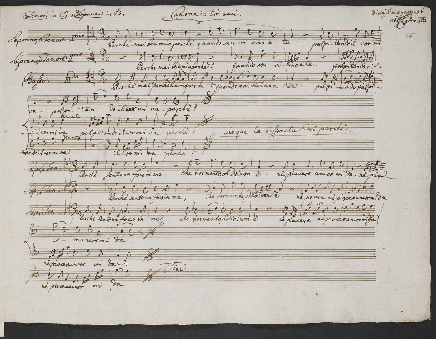 Perché mai ben mio. In the composer's hand.